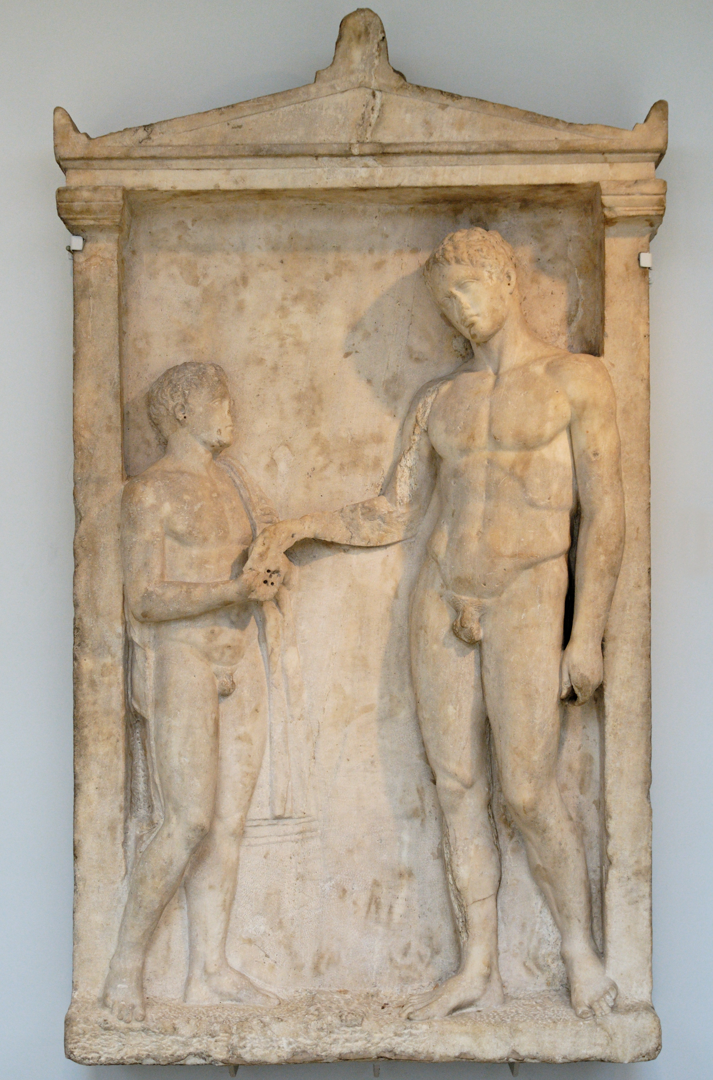 Young boy giving a lekythos (oil flask) to a youth, probably an athlete. Marble grave stele, ca. 375 BC. Said to be from Delos, more probably from the neighbouring island of Rheneia.